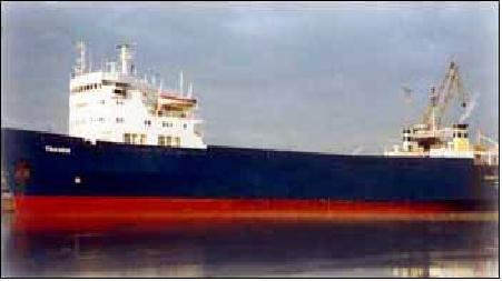 RoRo ship M/S Traden. Currently the name of the ship is M/S Notos.